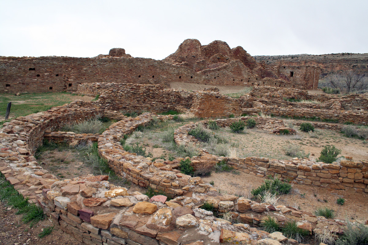 Pueblo del Arroyo ancestral puebloan great house ruins in Chaco Canyon, New Mexico.